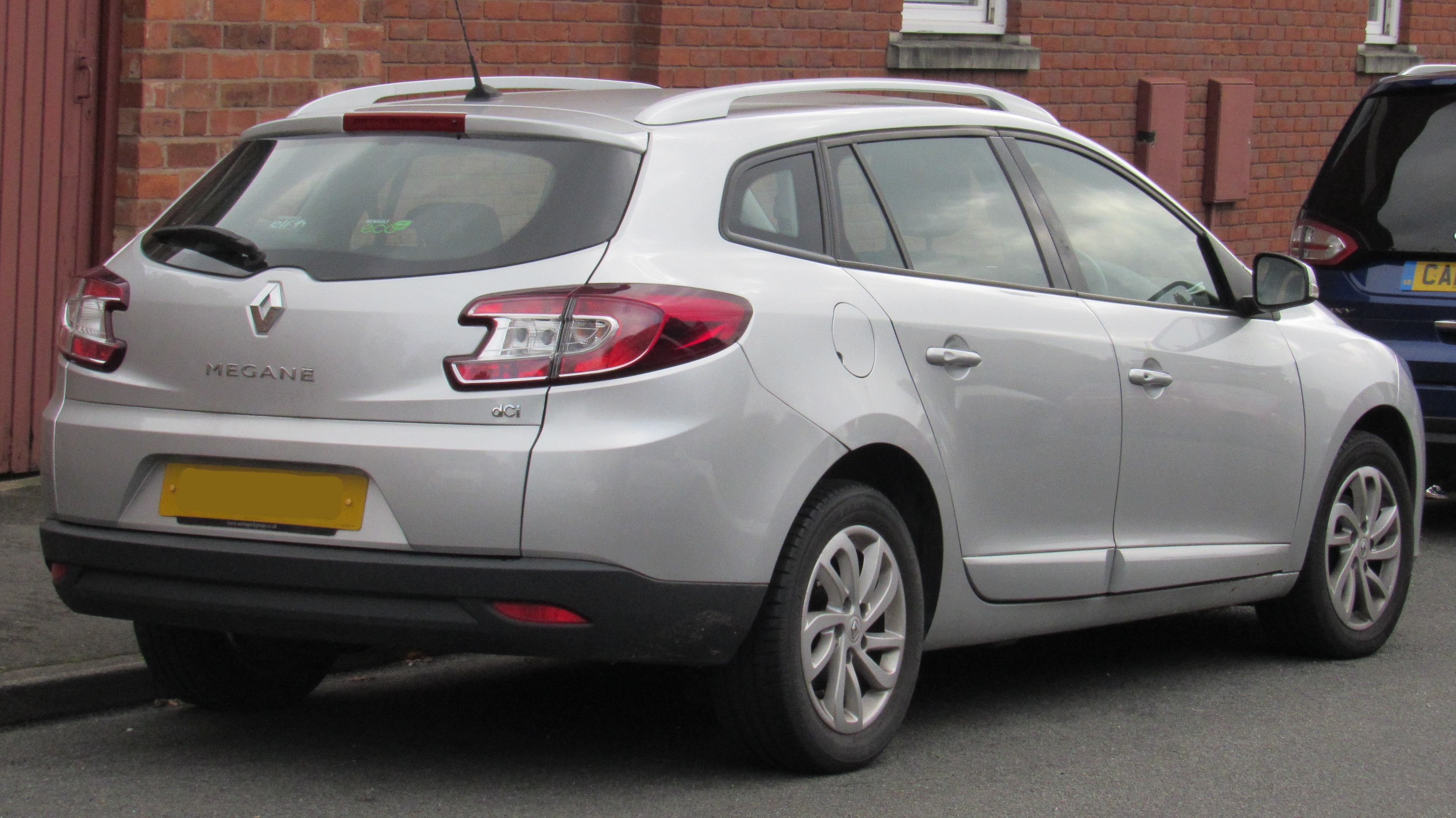 2014 Renault Megane D-QUE Estate 1.5 Second facelift Rear Taken in Leamington Spa